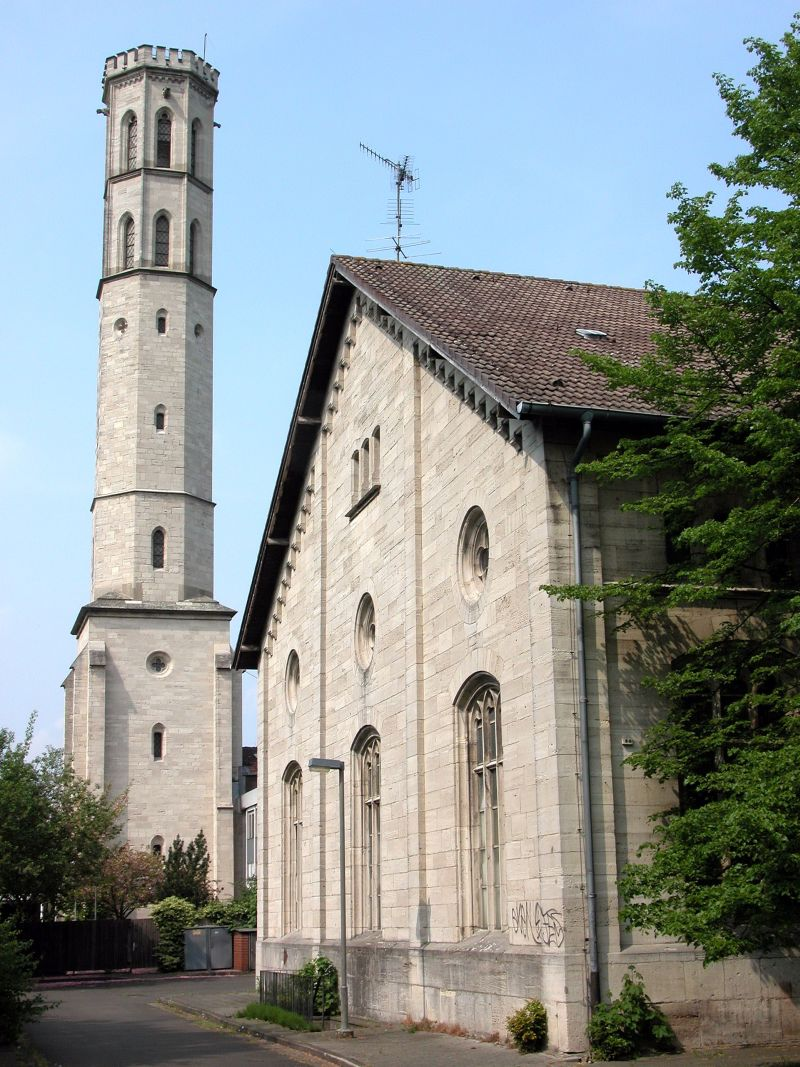 Brunswick, Germany: So-called “Water tower” in the Bürgerpark (Citizens’ Park).